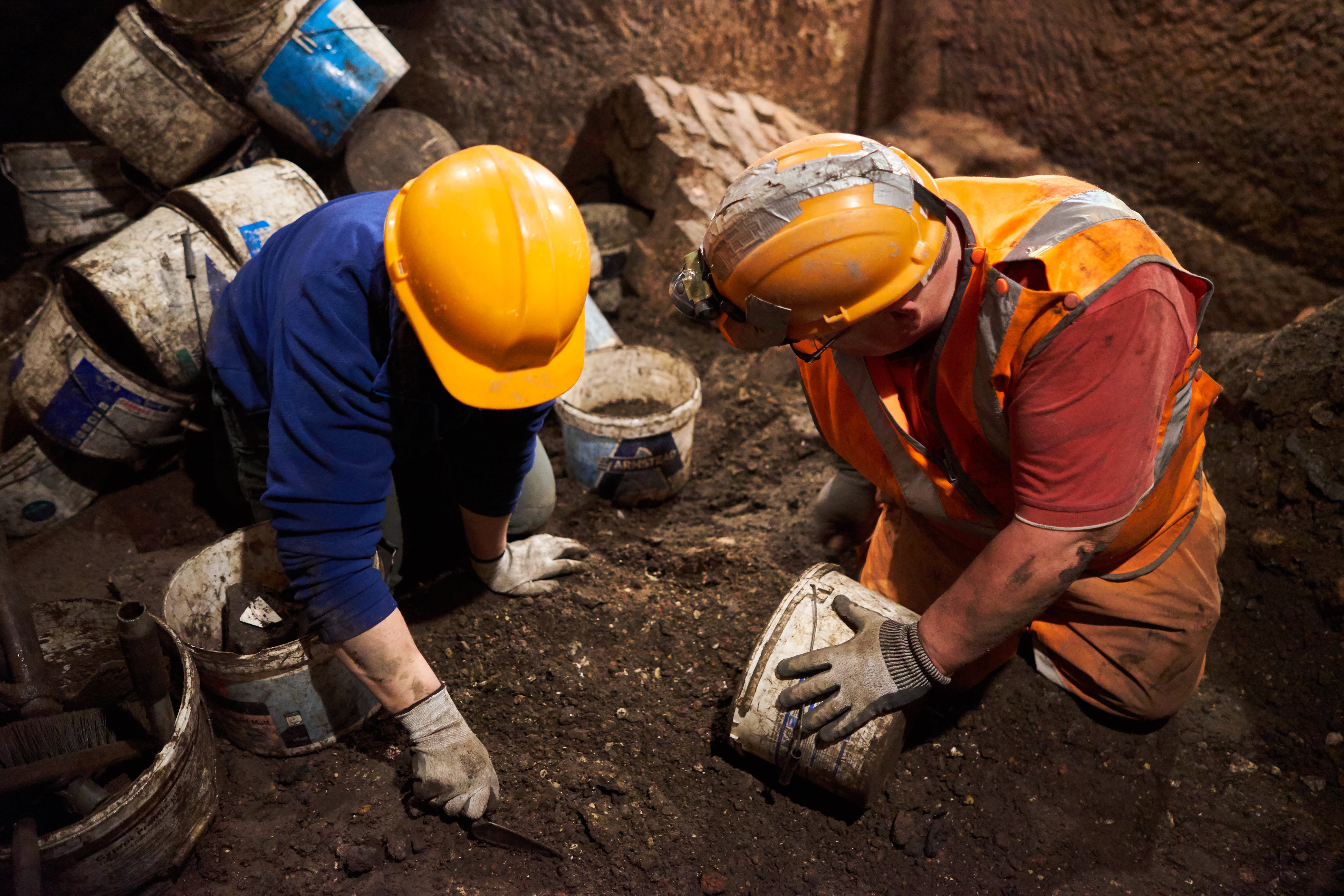 Members of Friends Of Williamson's Tunnels digging through spoil in a newly-discovered chamber, May 2019. Photo: Kyle May, Friends Of Williamson's Tunnels